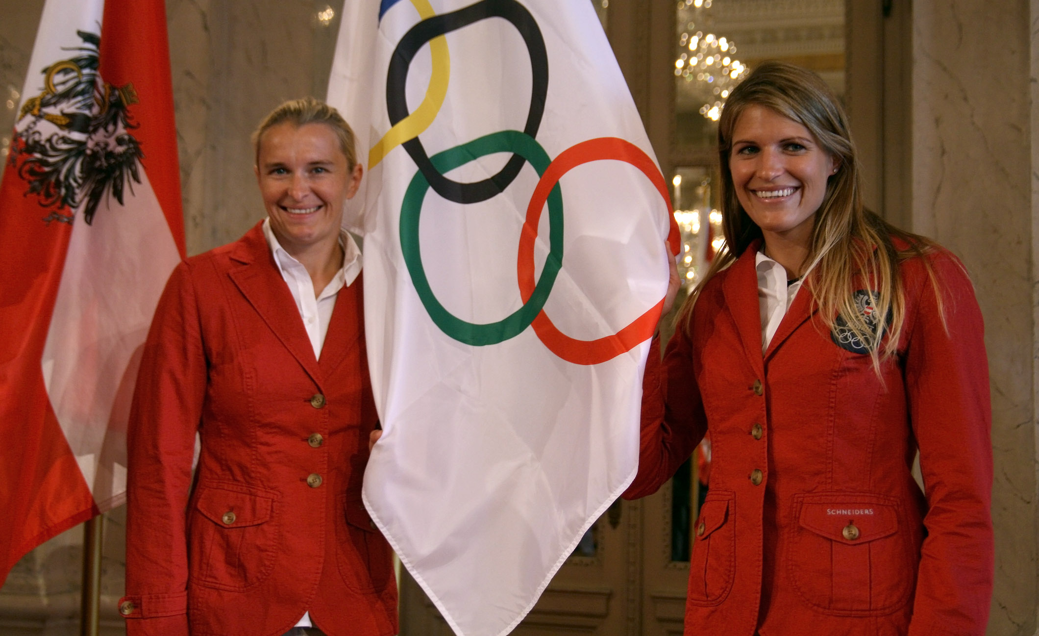 Viktoria Schwarz (right) and Yvonne Schuring at the official farewell of the Austrian team for the 2012 Summer Olympics in London at the ceremonial hall of Hofburg Palace in Vienna.